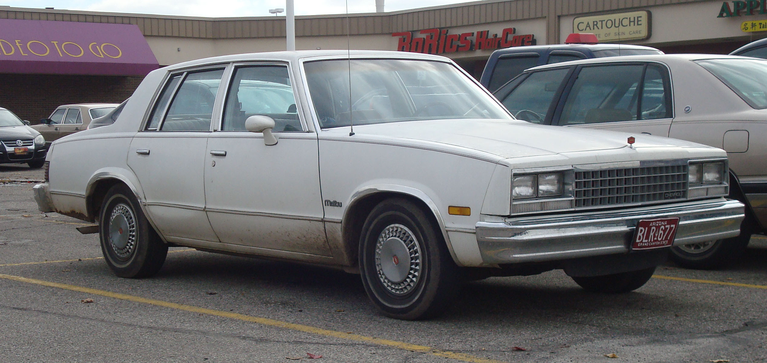 1983 Chevrolet Malibu photographed in Lansing, Michigan.